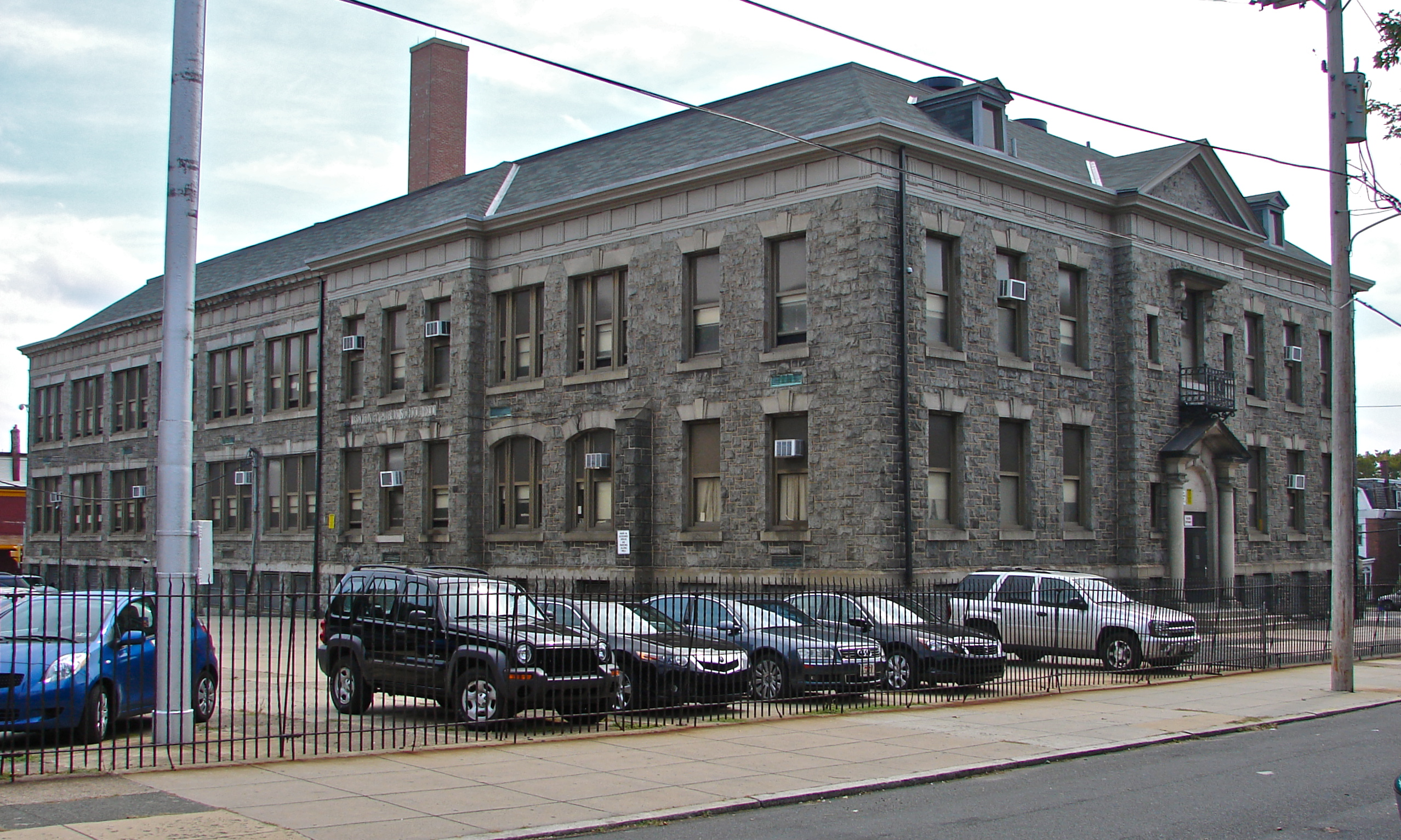 Olney Elementary School in Philadelphia on the NRHP since December 4, 1986. At 5301 North Water St. in the Olney neighborhood of North Philly. Not to be confused with, and a lot older than Olney High School, nearby